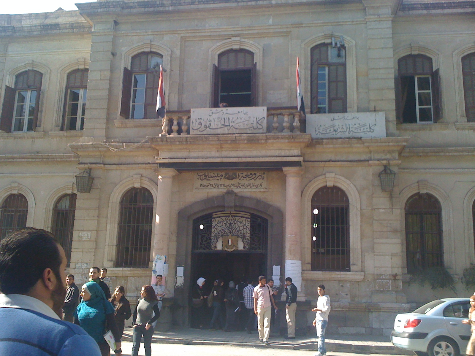 damascus university faculty of law